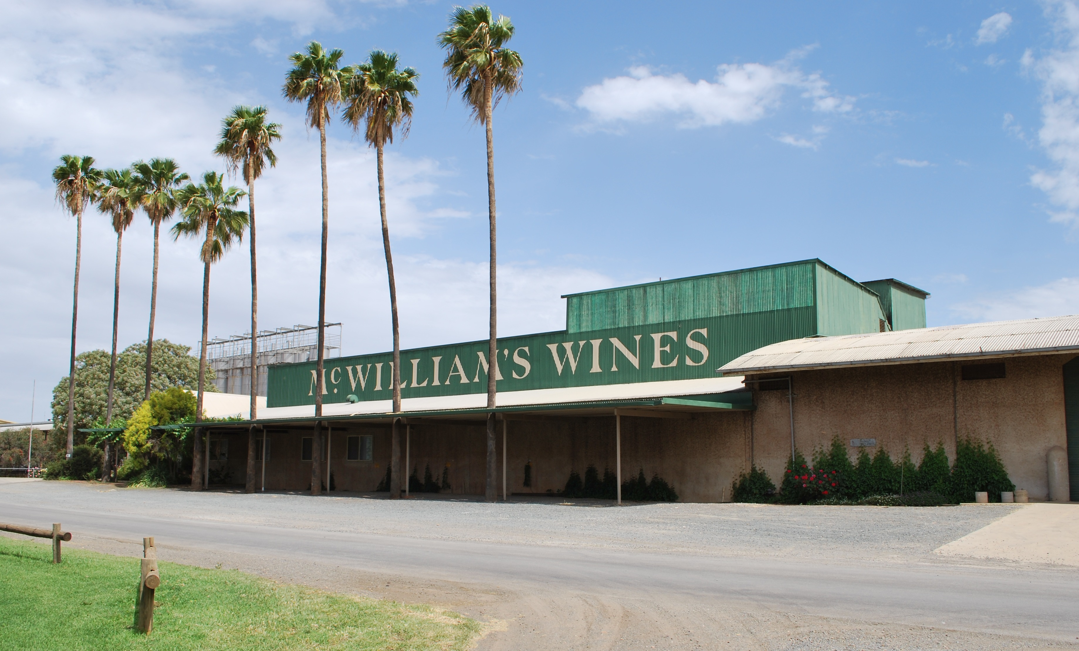 McWilliams Wines at Yenda, New South Wales